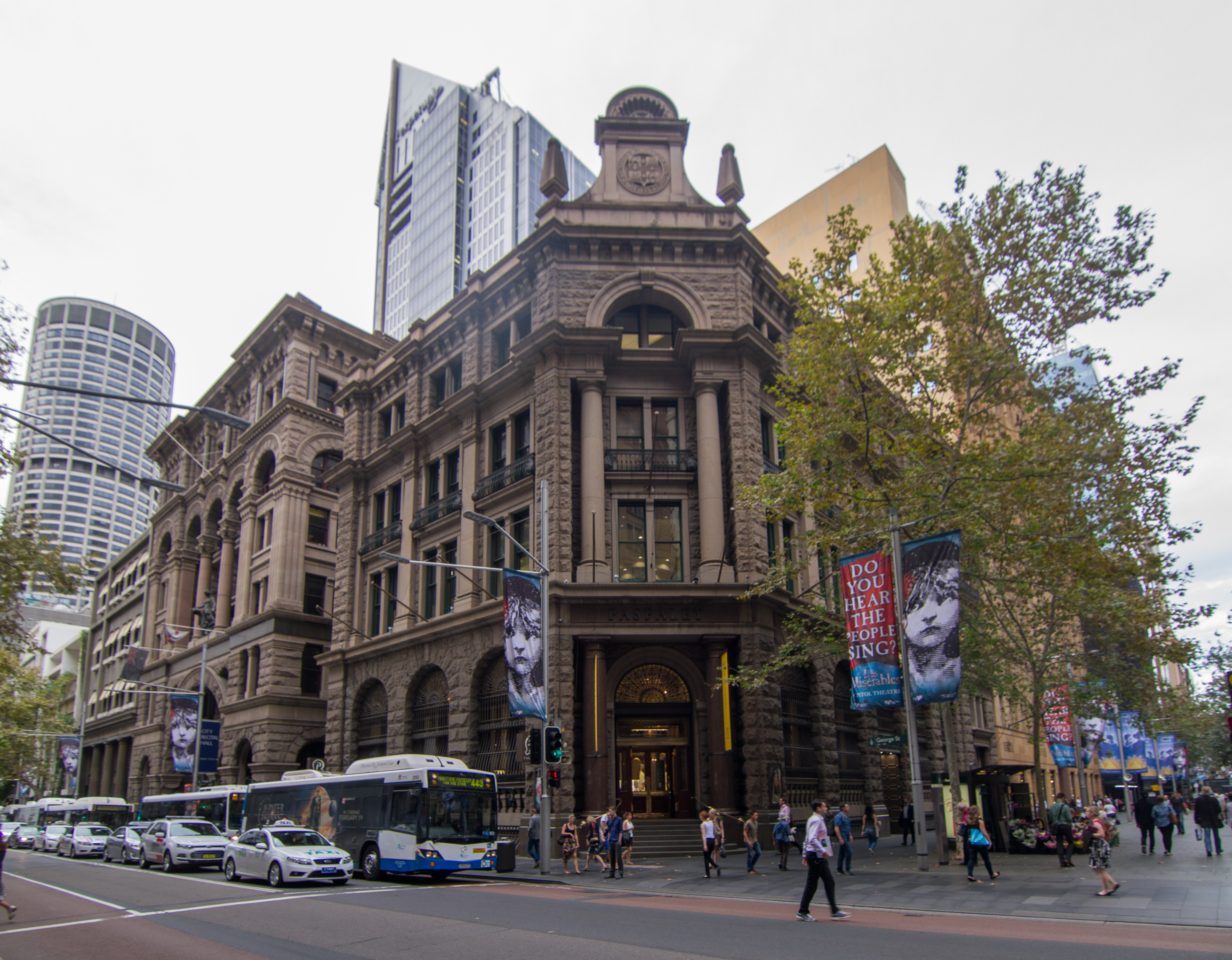 354 George Street, on the corner of George Street and Martin Place, in the Sydney central business district, New South Wales, Australia.Sometimes incorrectly called 2 Martin Pace. Built for the Bank of Australiasia until it was then over by the ANZ Bank. Now commercial and retail space.